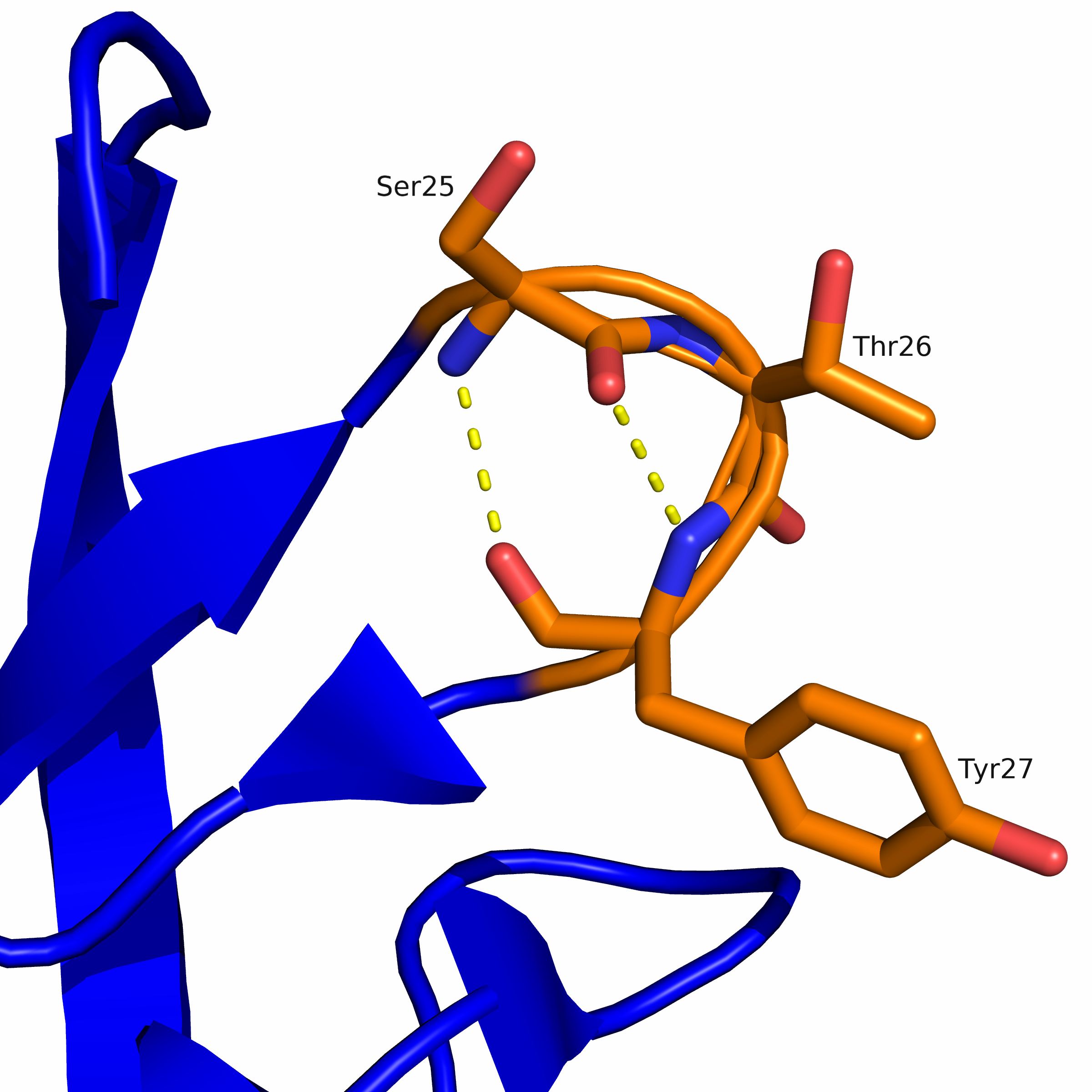 Ribbon model of the classic γ turn of thermolysin, after PDB: 2A7G​.